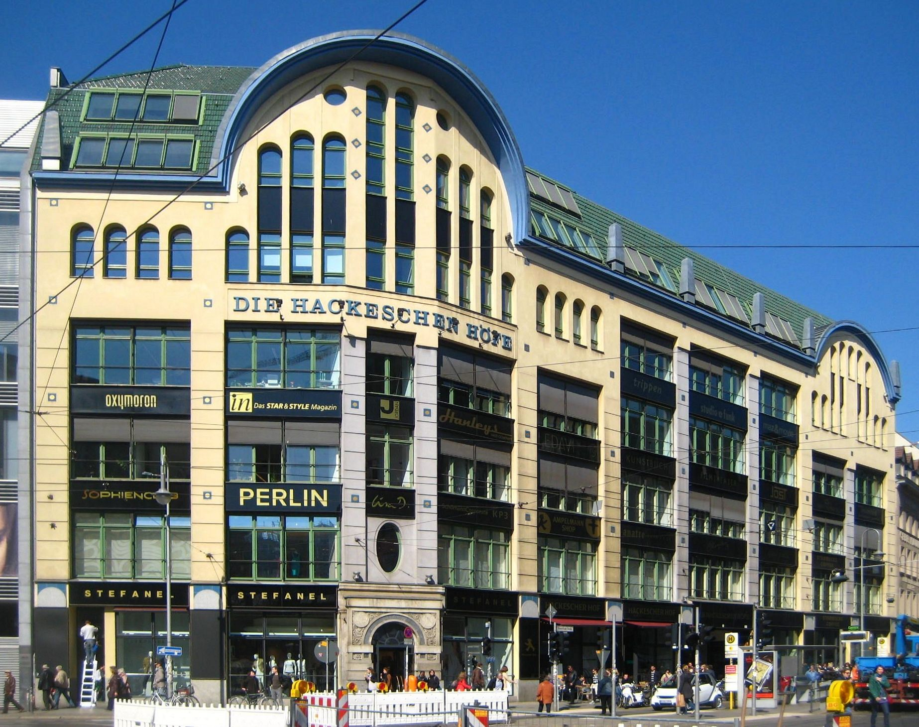 Front building of the Hackesche Höfe at Hackescher Markt in Berlin-Mitte. The complex was built from 1906 to 1907 to a design by the architects Kurt Berndt and August Endell. It has been dedicated as a historic landmark.